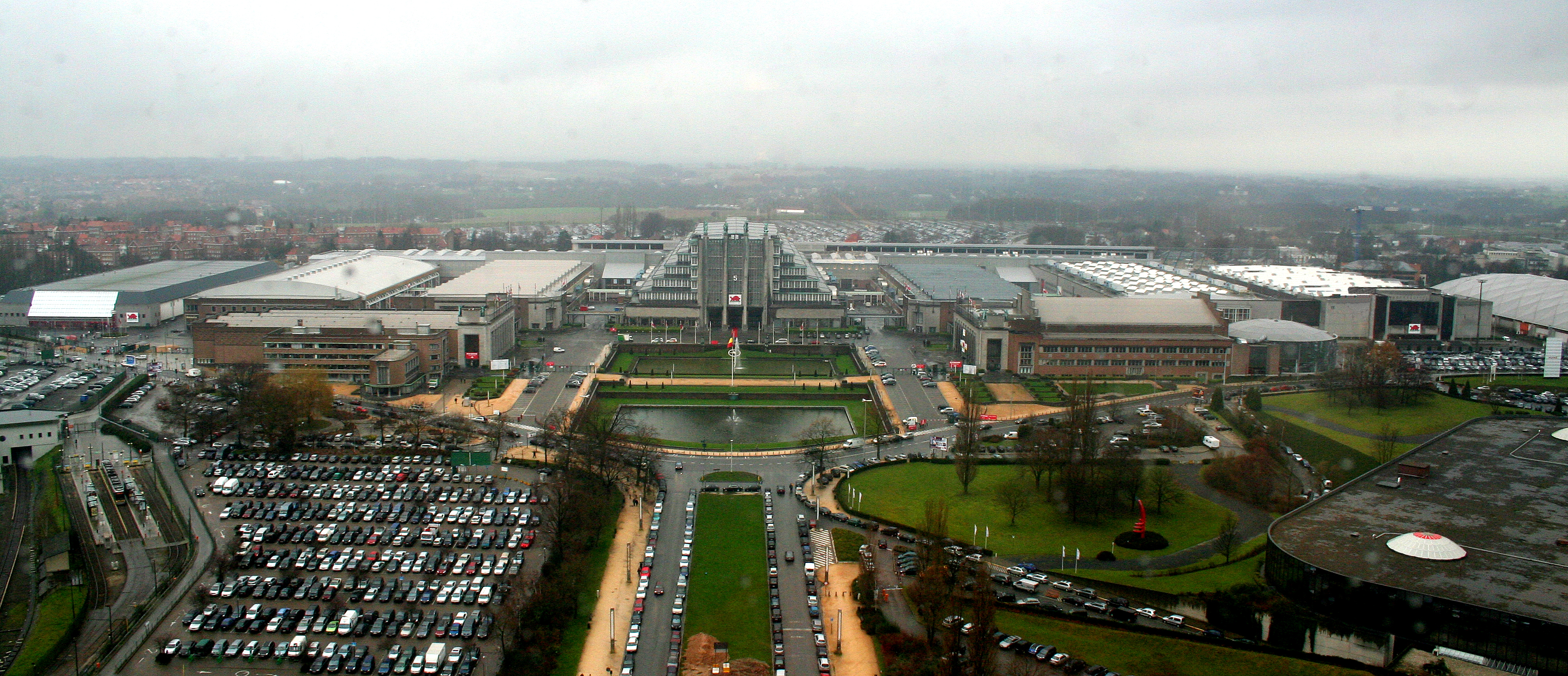 Centenary Palace in Heysel Park. Built for the 1935 Brussels World's Fair; reused for Expo'58.